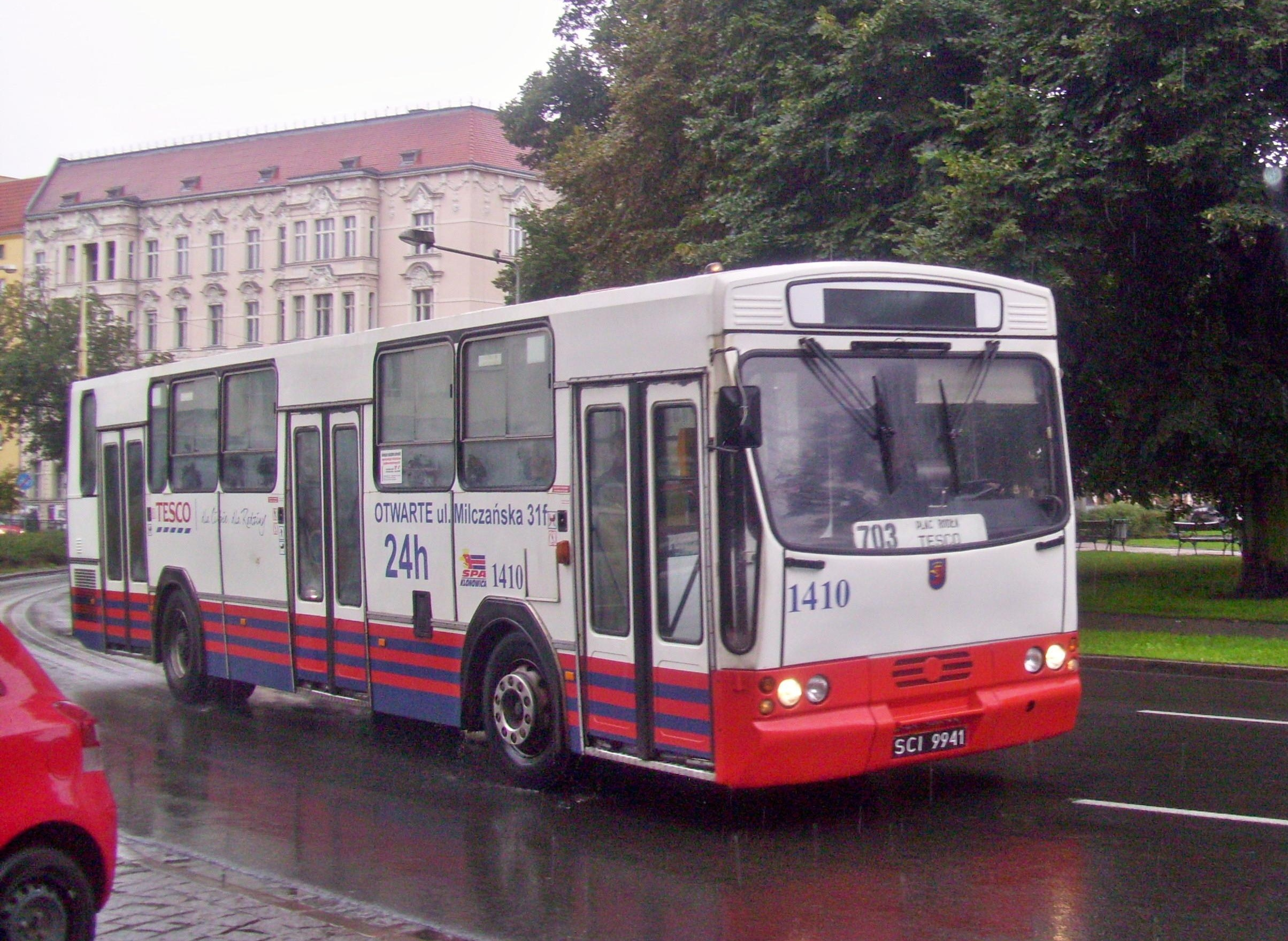 Jelcz 120M bus (#1410) built in 1994 at Grunwaldzki square in Szczecin, Poland. SPA Klonowica operator.